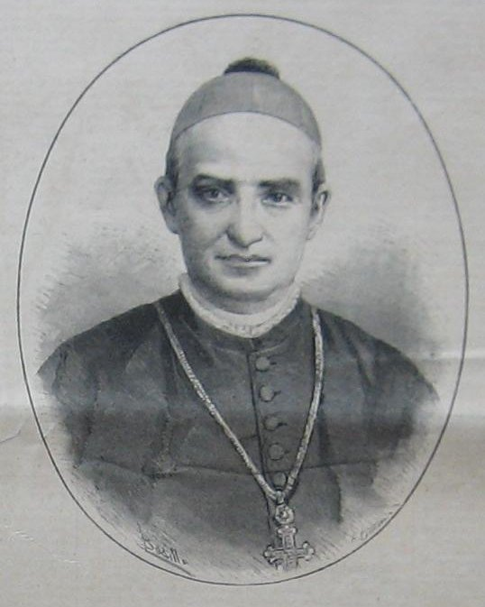 Beatus Ciriaco Sancha in 1889, as bishop of Madrid-Alcalá